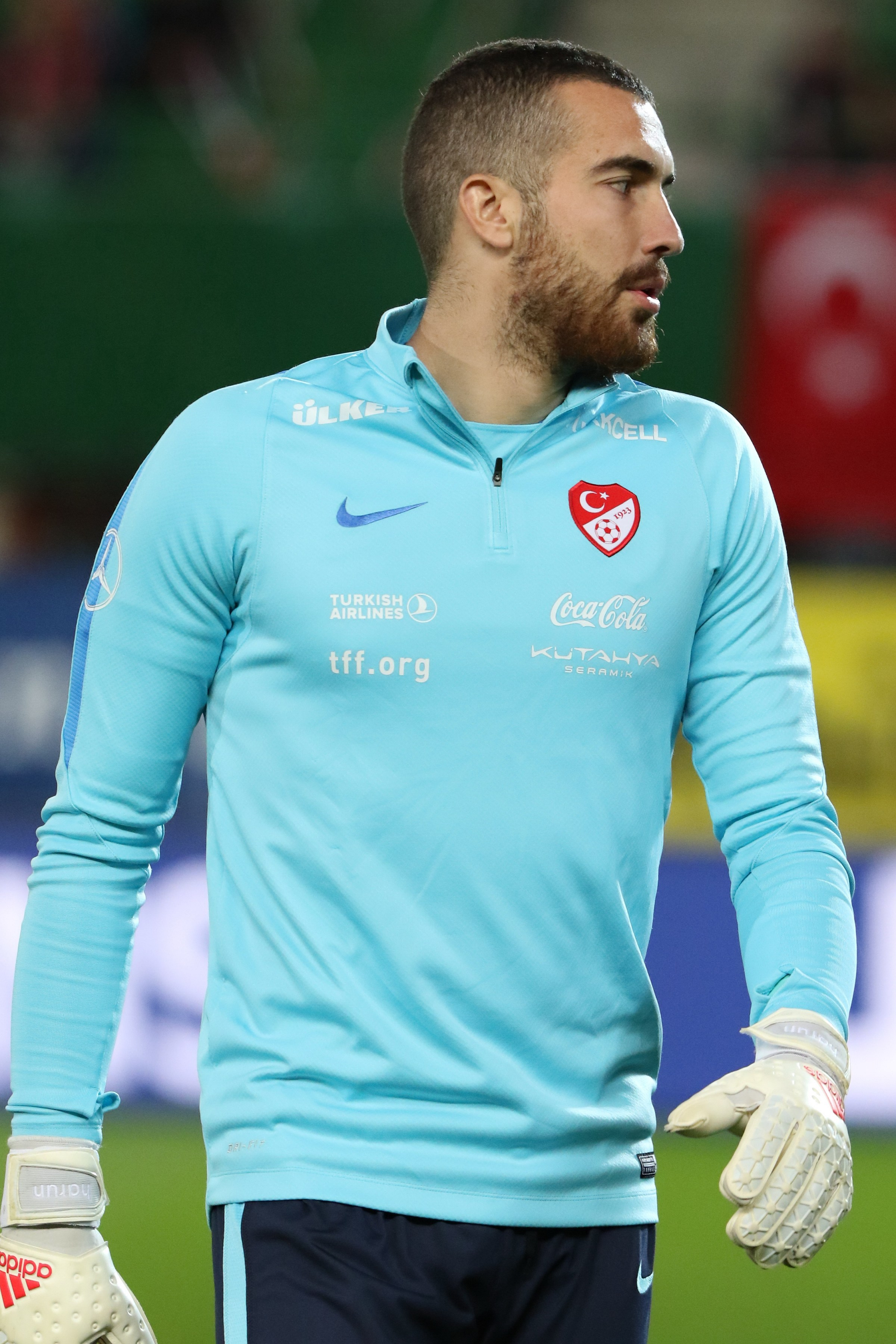 Friendly match – Austria (red shirts) vs. Turkey (blue shirts) 1–2 (1–1) on 2016-03-29 in Ernst-Happel-Stadion, Vienna – The photo shows the goalkeeper of Turkey Harun Tekin (Bursaspor).